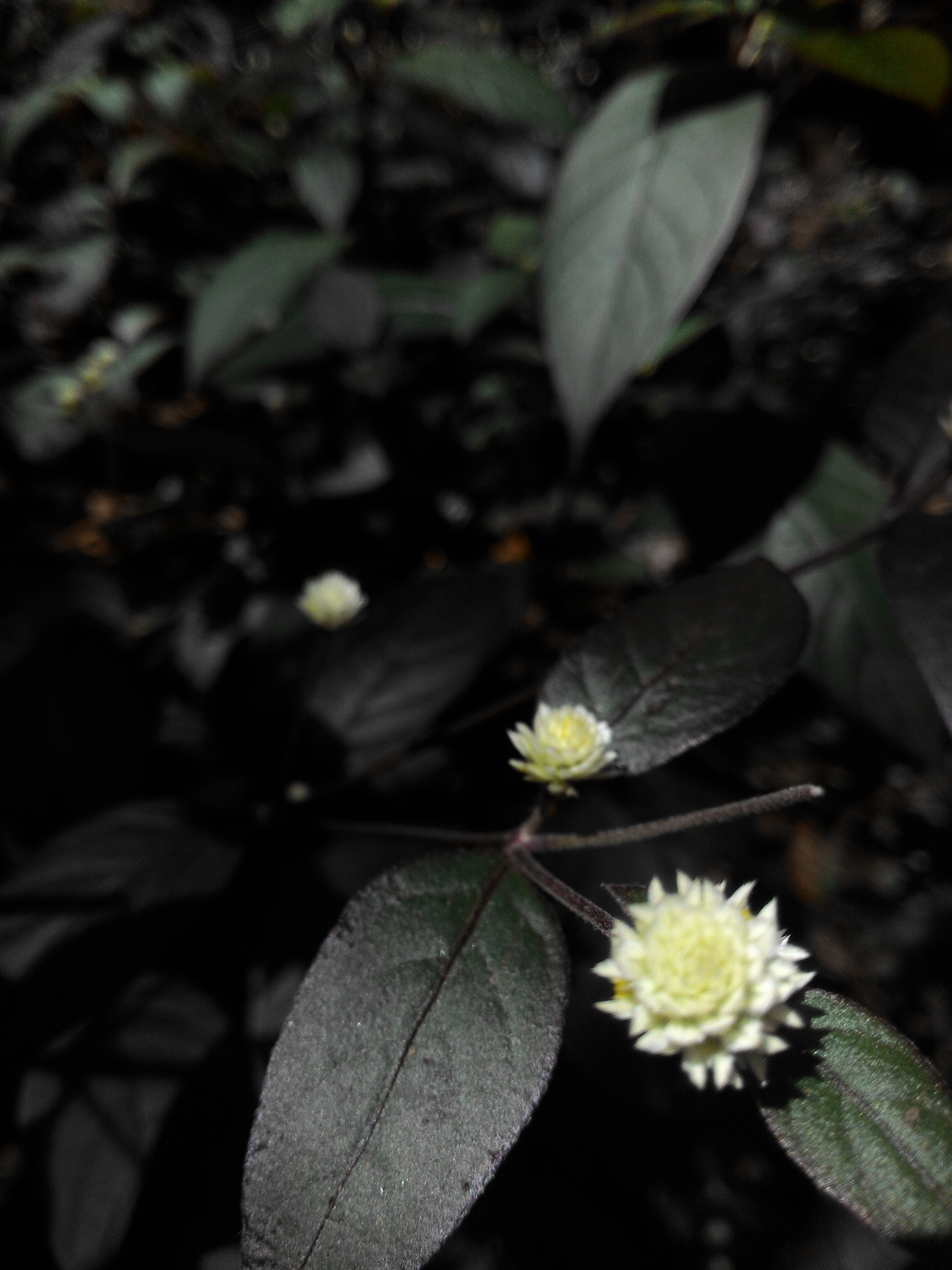 Alternanthera bettzickiana